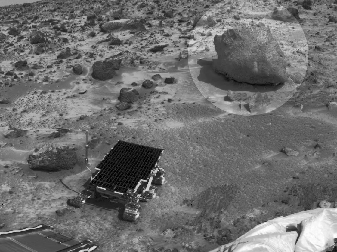 This area of terrain near the Sagan Memorial Station was taken by NASA's Mars Pathfinder. The rock Barnacle Bill is to the left of Sojourner, and the large rock Yogi is at upper right. On the horizon sits the rock dubbed "Couch." At center, Sojourner has traveled off the lander's rear ramp and onto the surface of Mars.